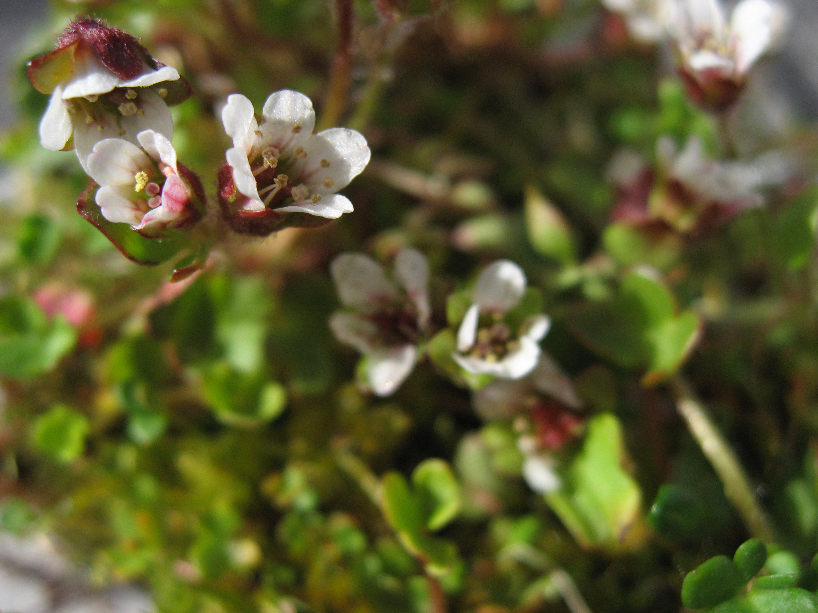 Alpine Brook Saxifrage (Saxifraga rivularis) photographed near the port in Upernavik, Greenland.